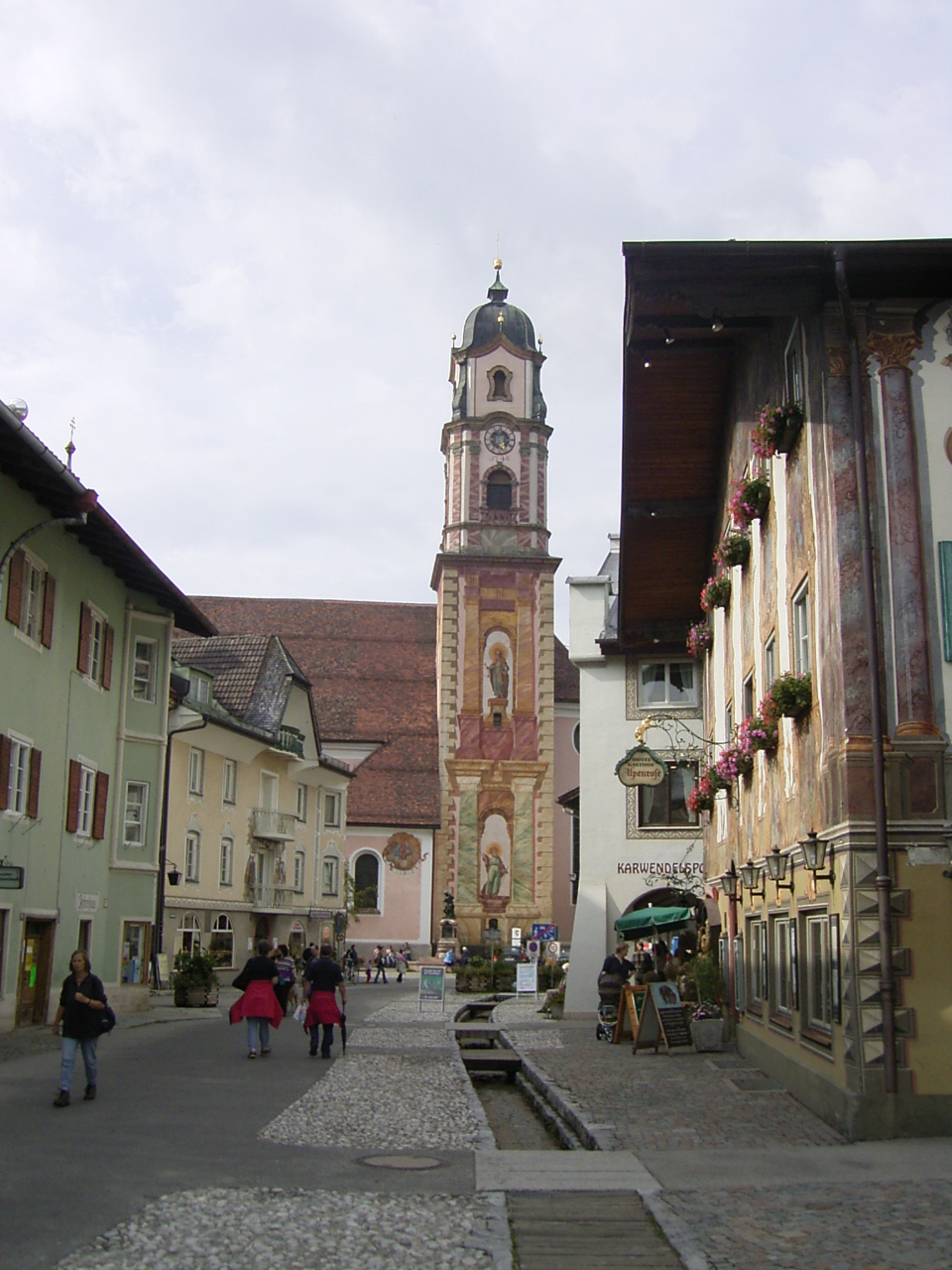 This pic shows a painted wall in Mittenwald